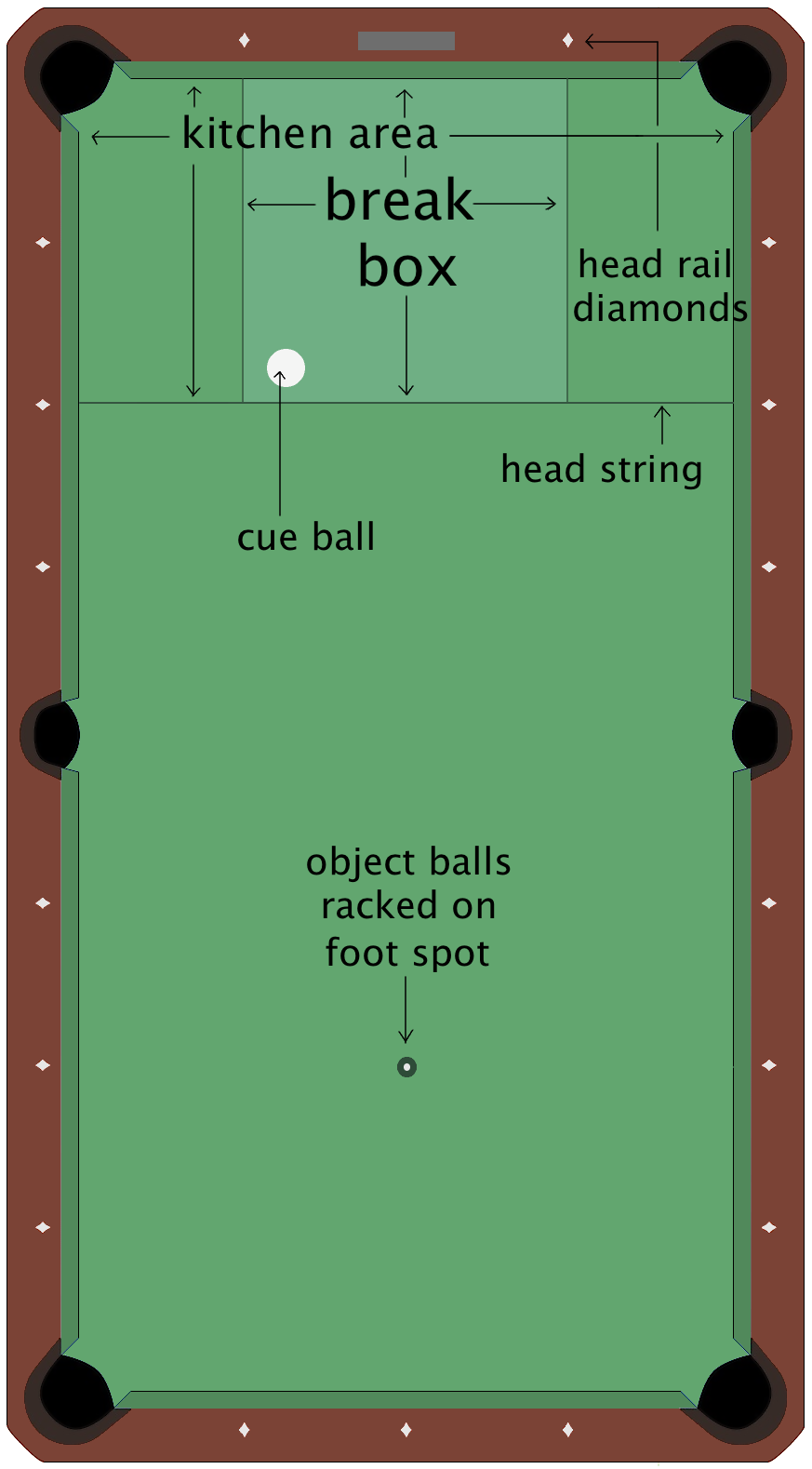 Illustration of the "break box" in European nine-ball, and its relation to other pool table features such as the "kitchen" and the head string.